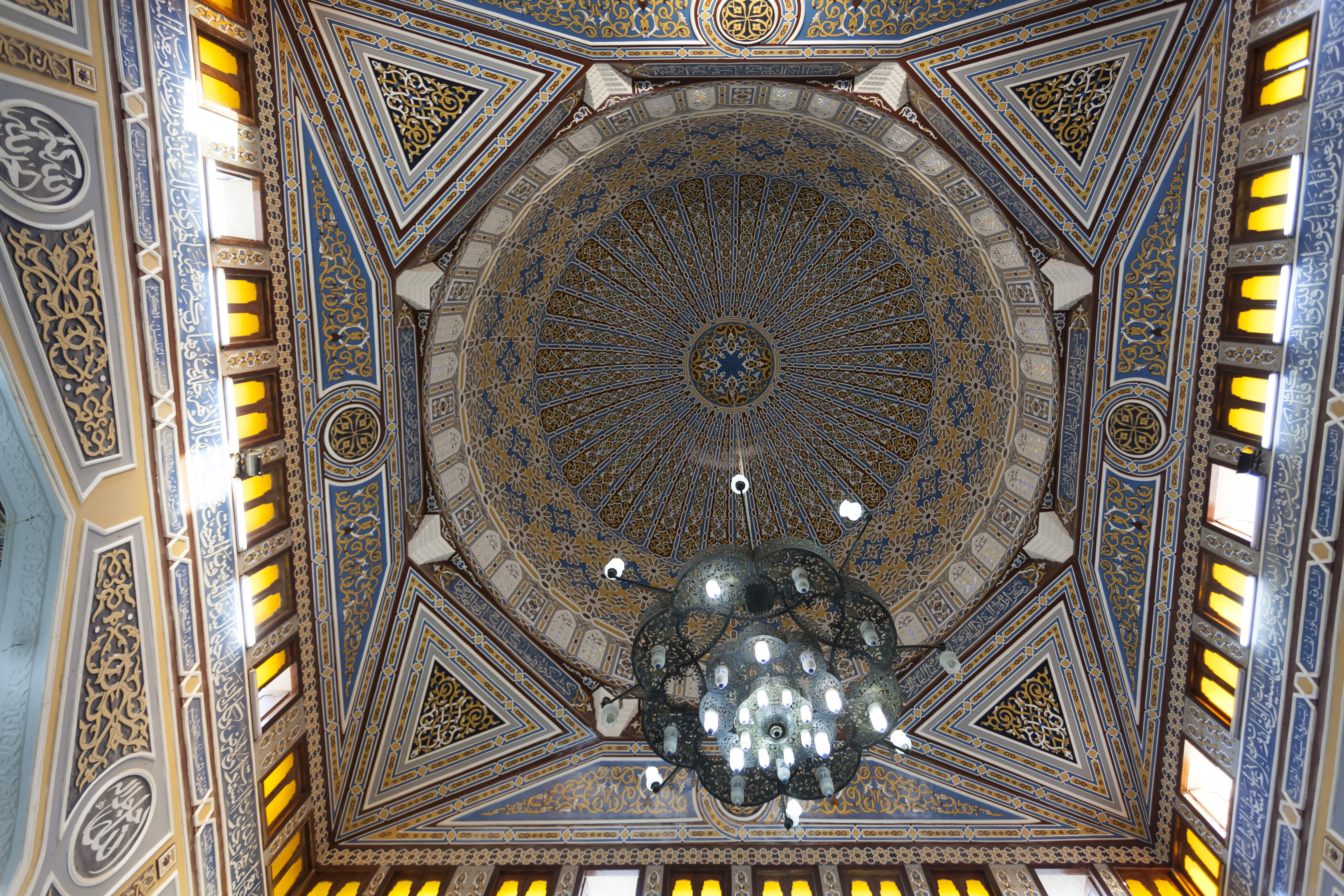 Dome of the Great Mosque, El Kharga Town, New Valley, Egypt